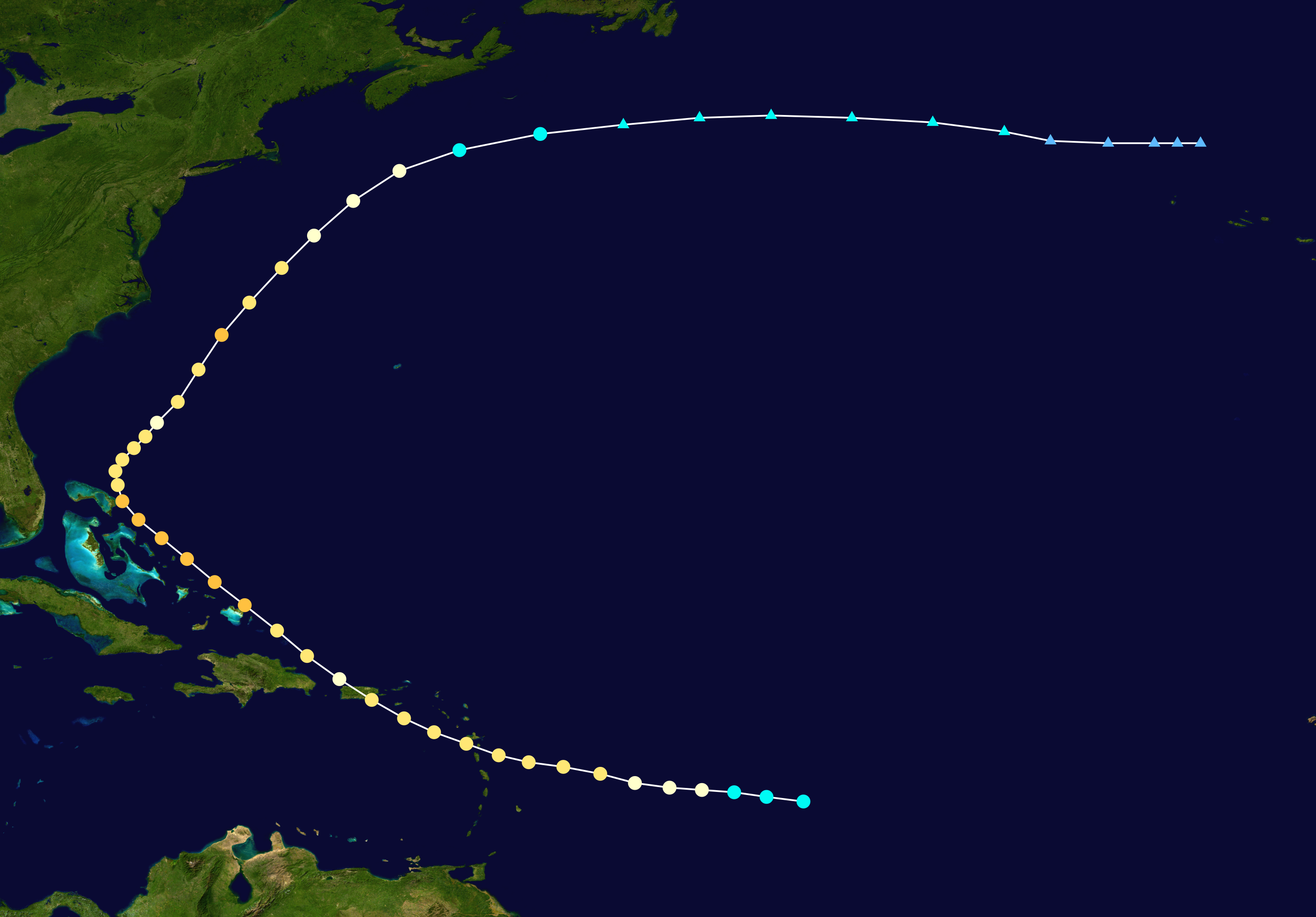 Hurricane Betsy (1956) track. Uses the color scheme from the Saffir-Simpson Hurricane Scale.